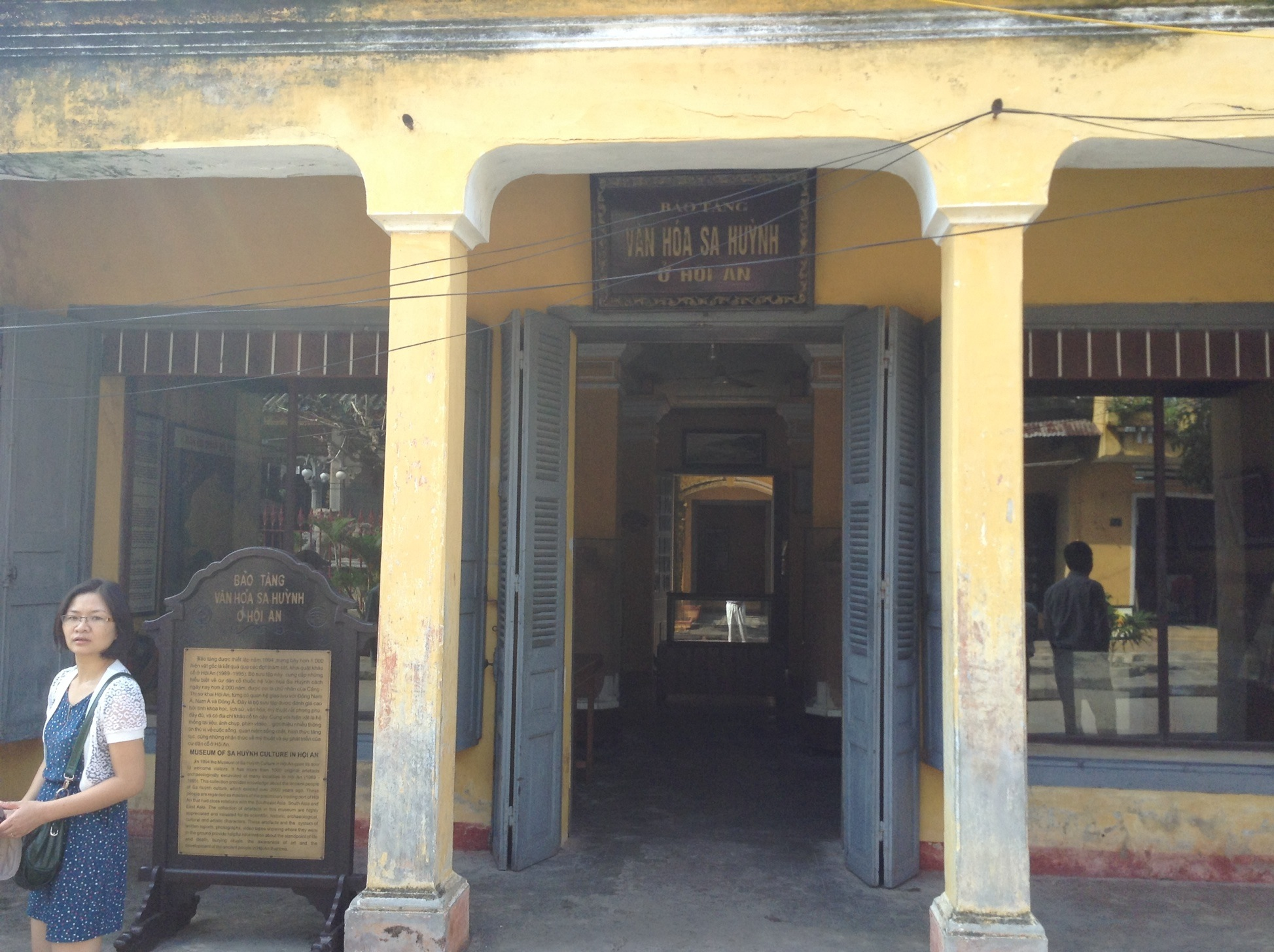 Entrance to the Museumof Sa Huynh Culture, Hoi An